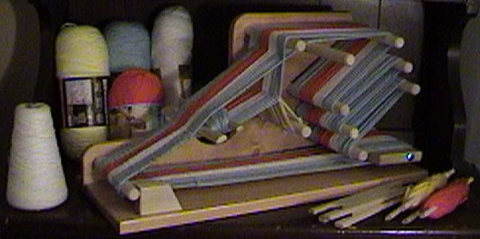 The "Heritage" inkle loom by The Loom Merchant